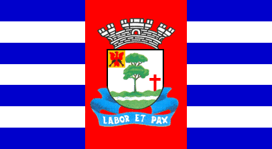 Flag from Orobó city, Pernambuco state, Brazil